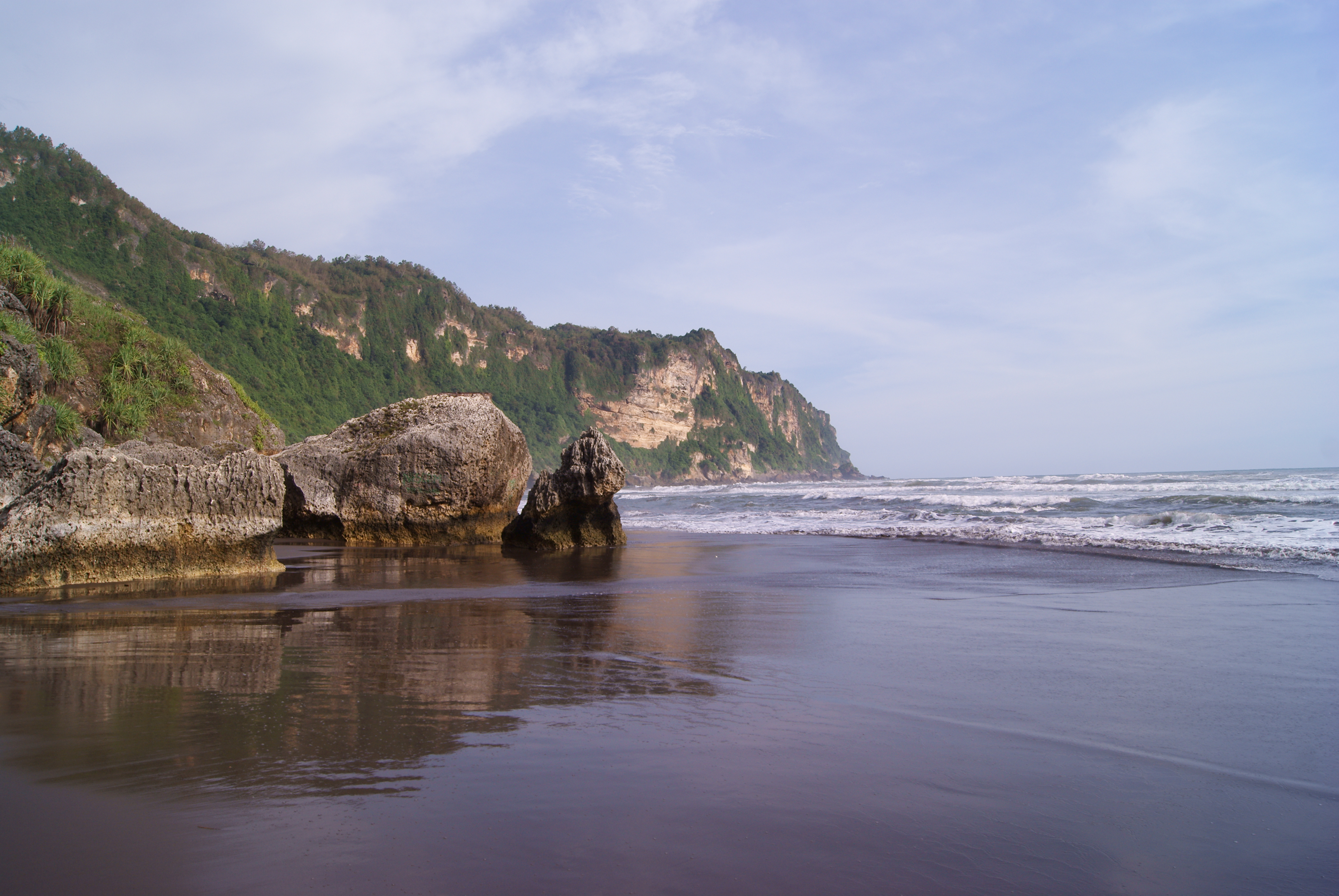 Parangtritis Beach, Yogyakarta, Indonesia